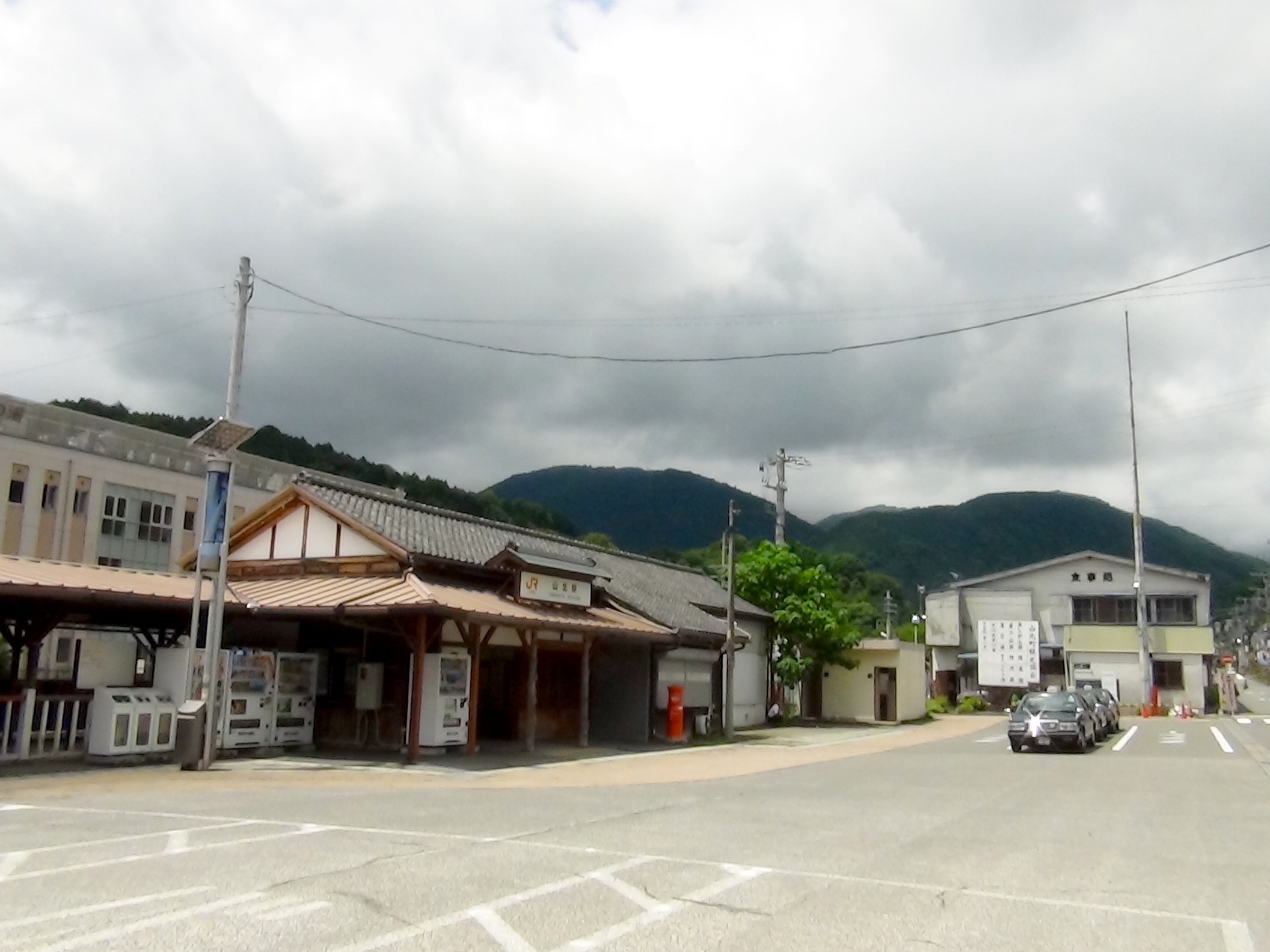 The station forecourt of Yamakita Station on the Gotemba Line in Yamakita, Kanagawa, Japan, operated by JR Central